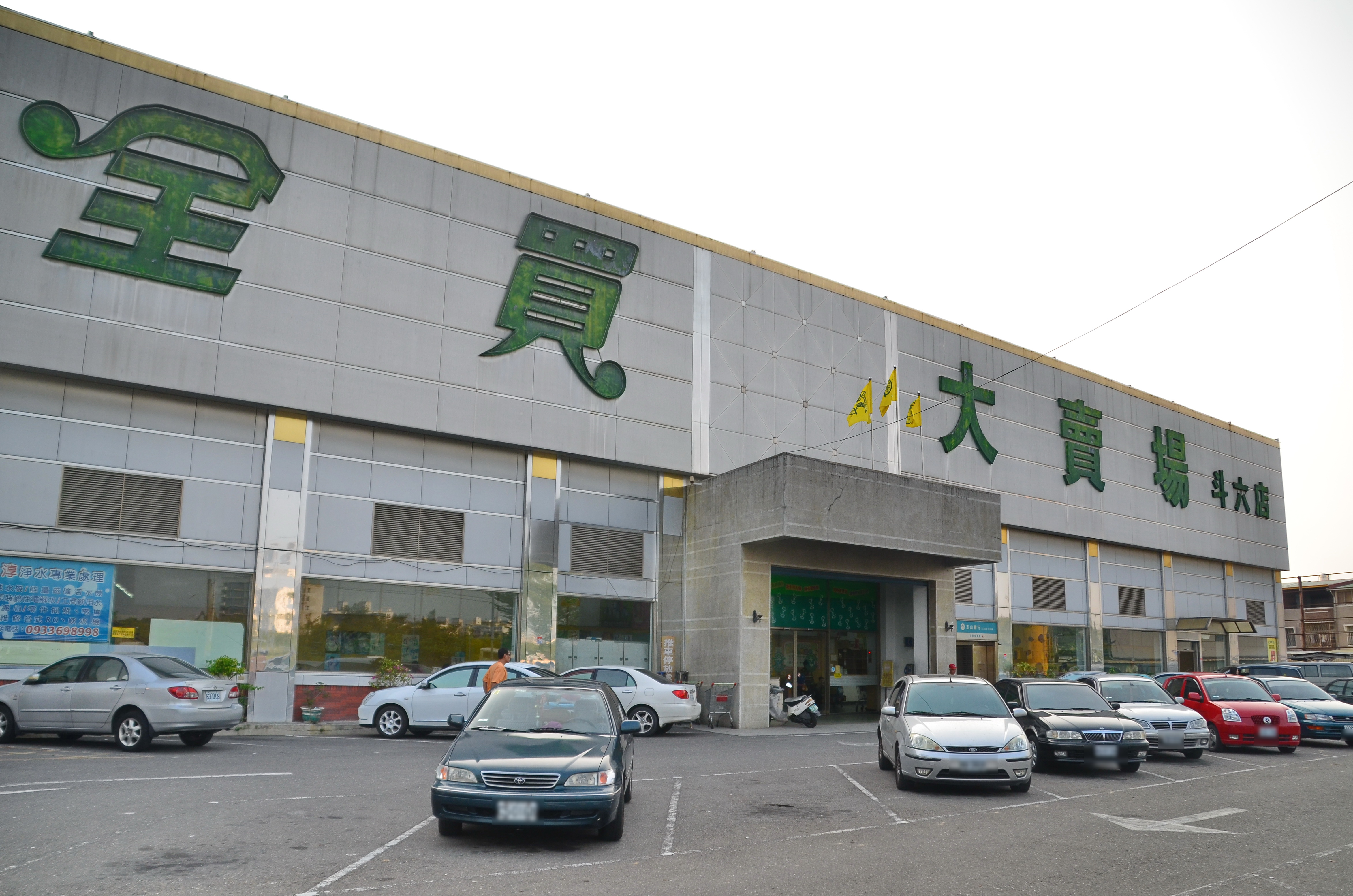 OBuying Mart, Douliou City, Taiwan.